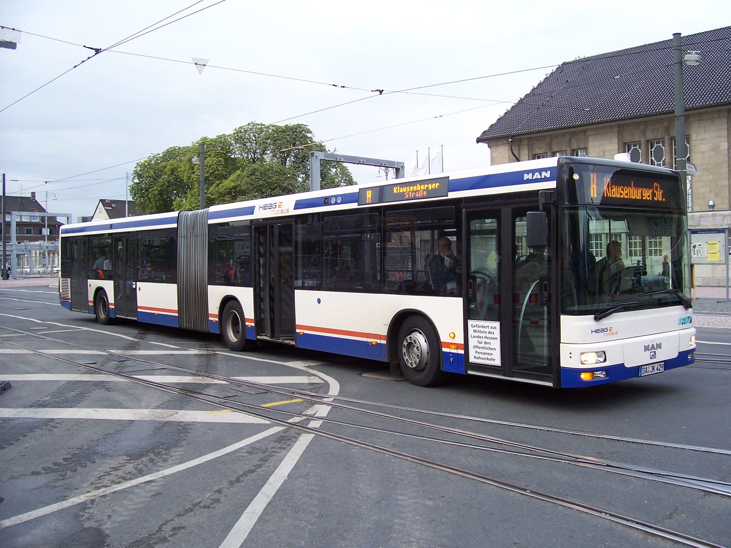 A MAN A23/NG 313 bus owned by HEAG mobibus in Darmstadt, Germany My own photo from 8-aug-2005